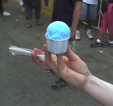 Photo of a cup of blue raspberry Italian ice being held aloft at the Taste of Chicago Festival, Chicago, Illinois.